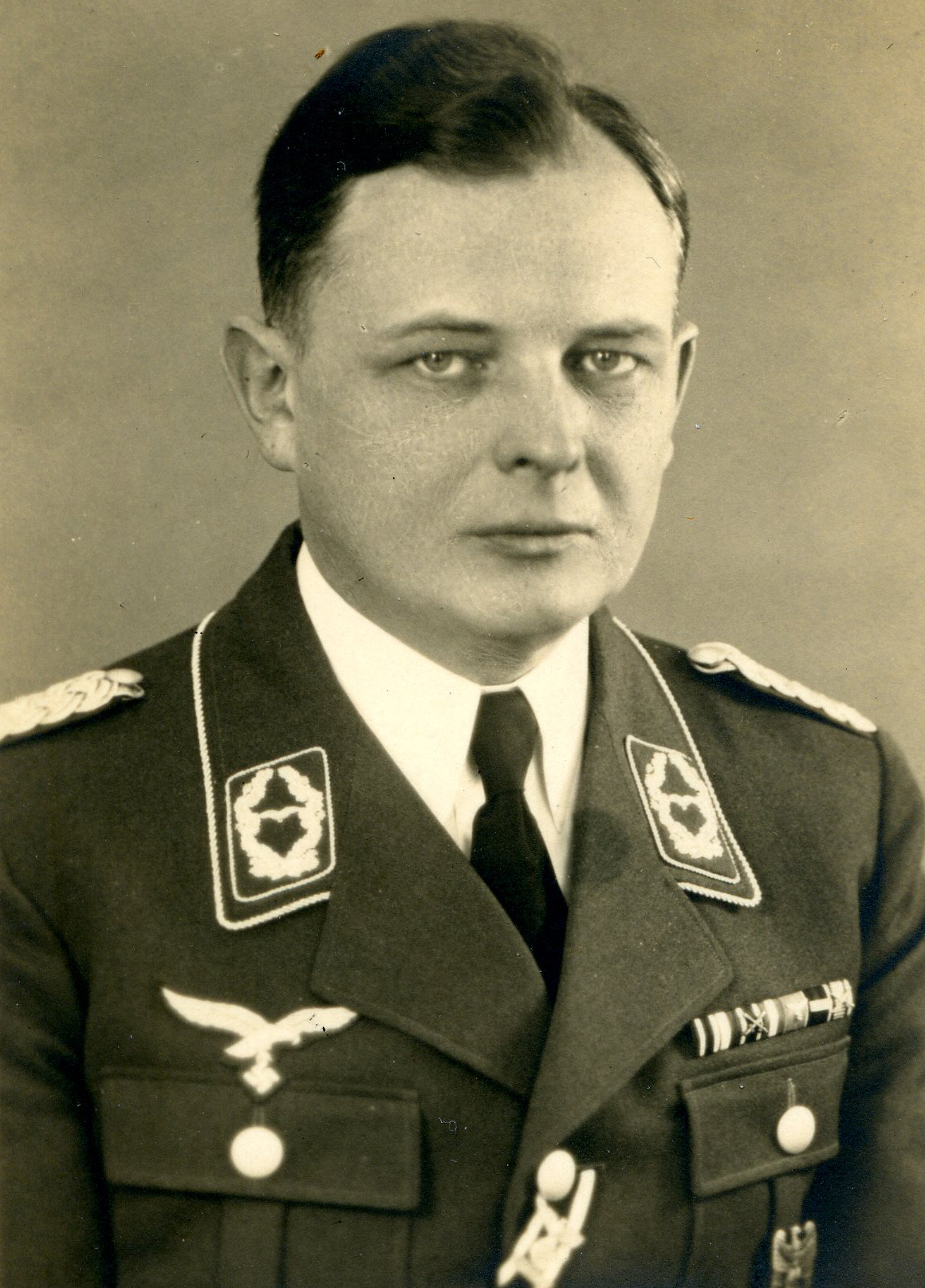 Nikolaus Ritter, Chief of Air Intelligence in the Abwehr (German military intelligence) during World War 2.